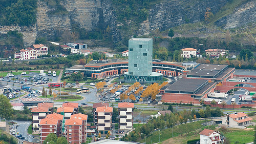 Overall view of ZAISA district in Irun City (Basque Country, Spain) and the imposing 40 meter ZAISA Tower. This district represents the principal Spanish connection to the rest of the European Union.